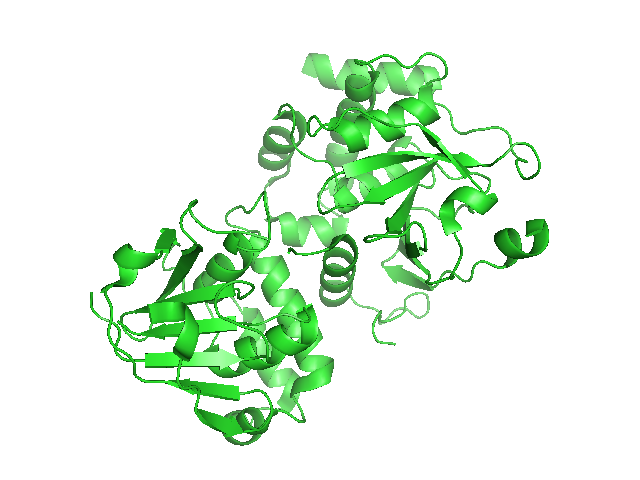 PDB code 3PHU determined by Akutsu, M. OTU domain of CCHF (Orthonairovirus) RNA Replicase.